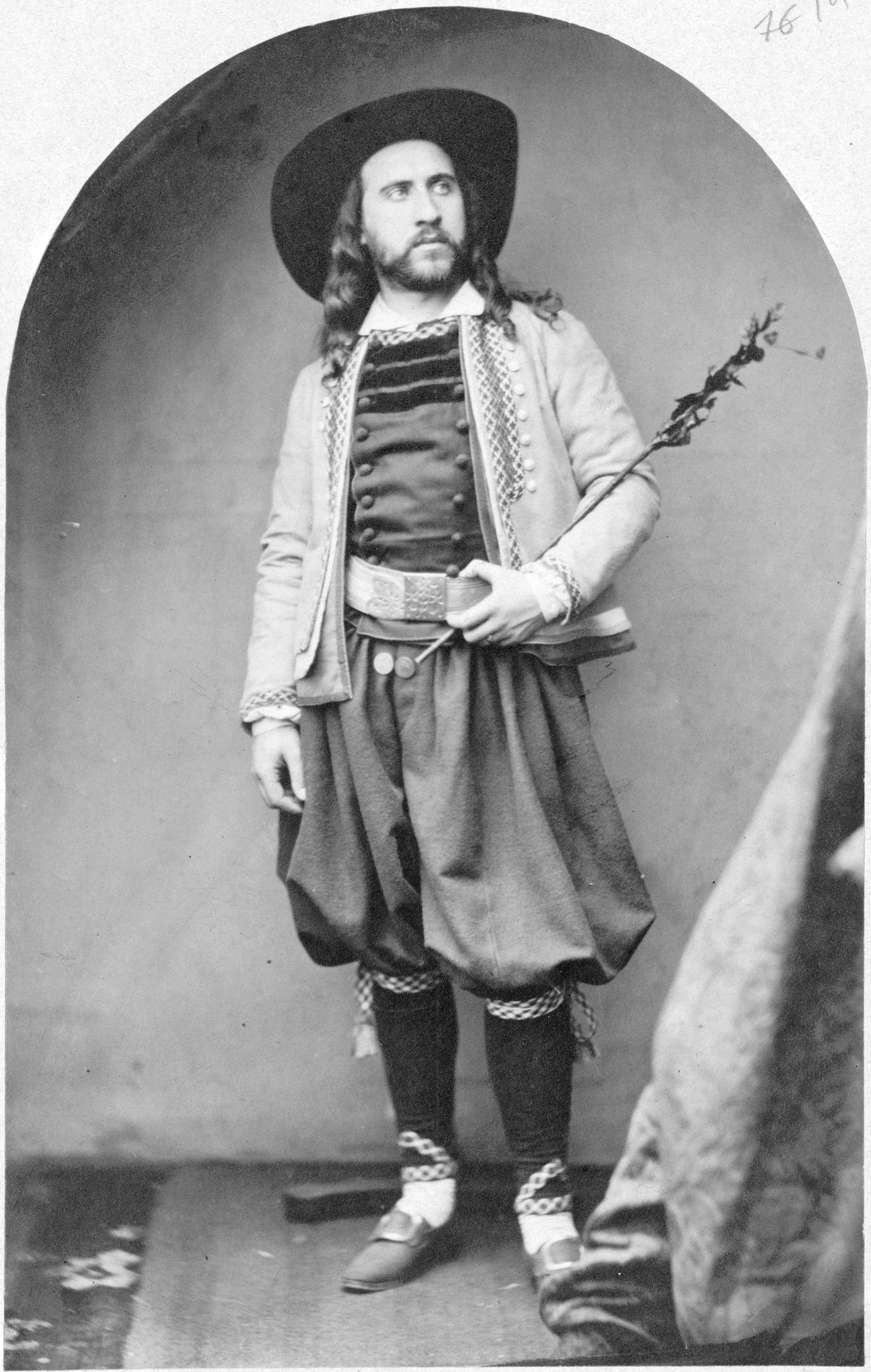 The baritone Jean-Baptiste Faure as Hoël in the opera Le pardon de Ploërmel by Meyerbeer as first performed on 4 April 1859 by the Opéra-Comique in the second Salle Favart in Paris